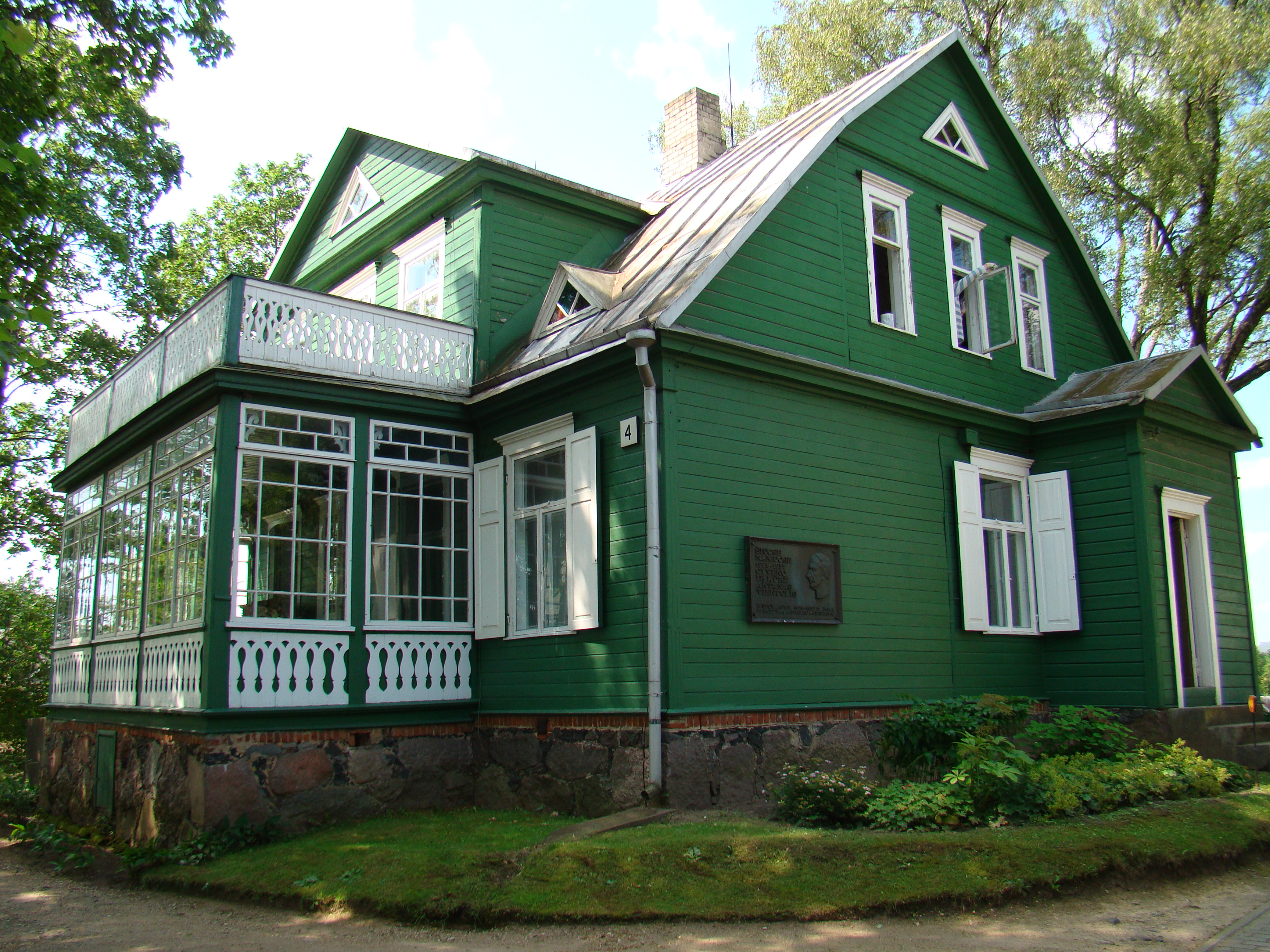 Memorial Museum A.Baranauskas end A.Vienuolis-Žukauskas, Anykščiai, Lithuania